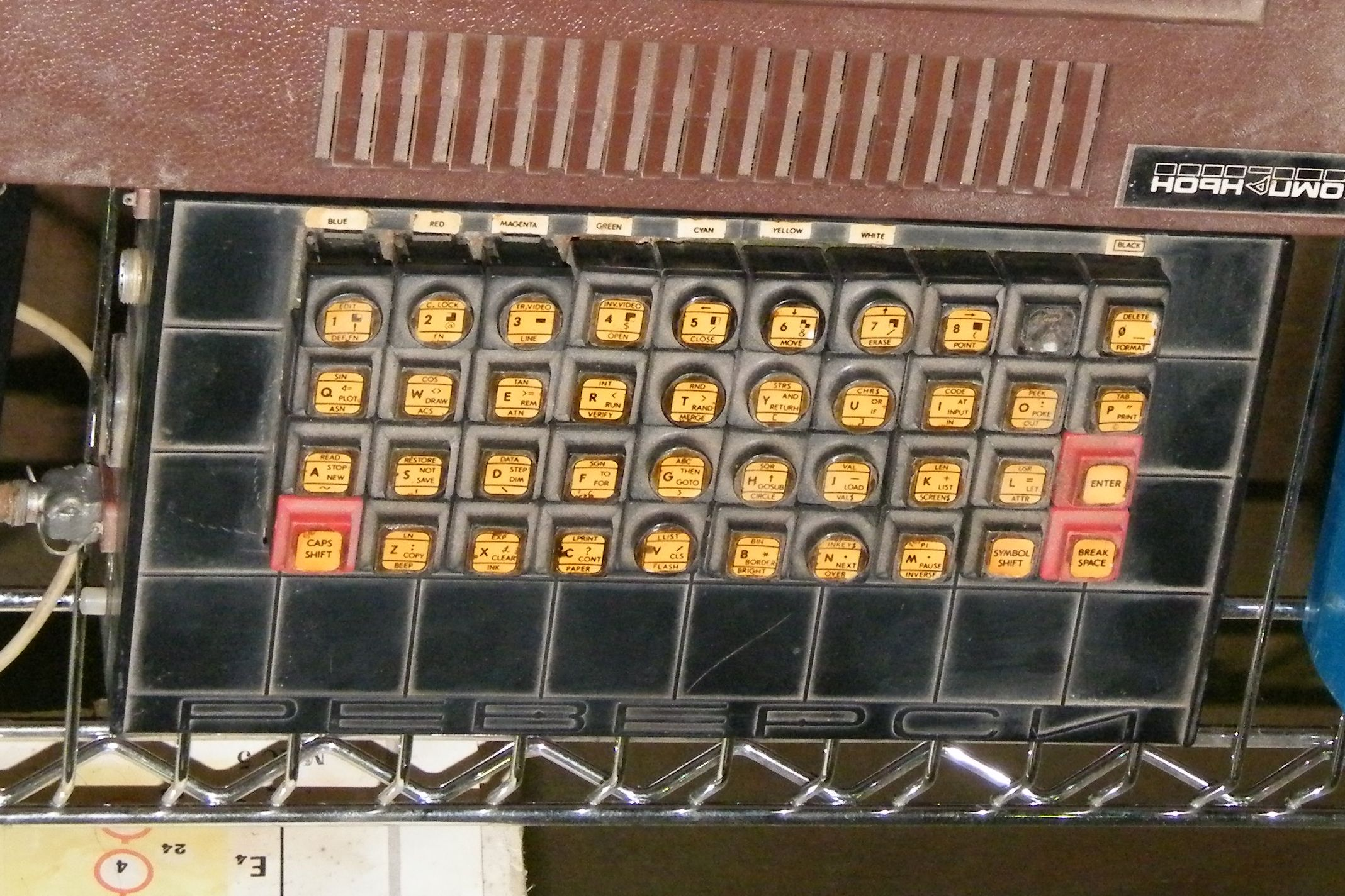 "Reversi" microcomputer, ZX Spectrum 48K clone.